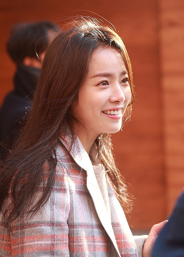 Han Ji-min on December 21, 2013